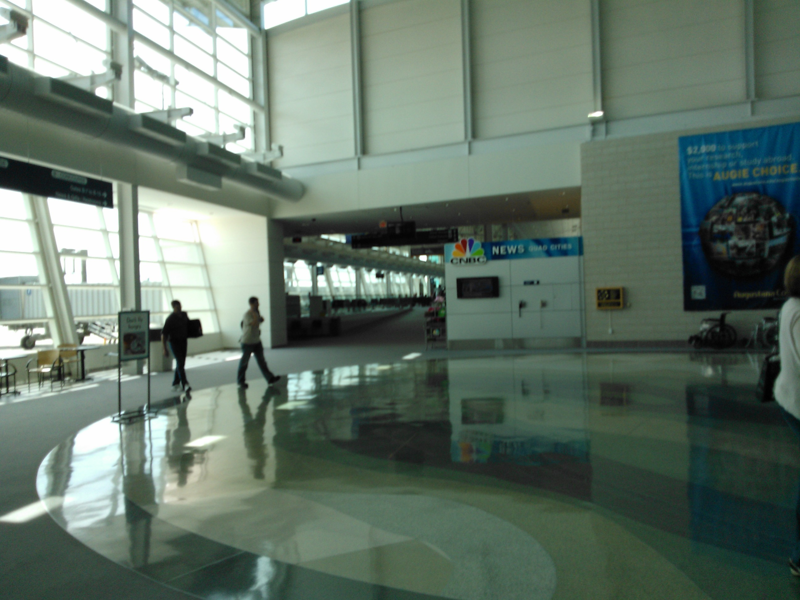 The atrium between the A and B Concourses at Quad City International Airport in Moline, Illinois